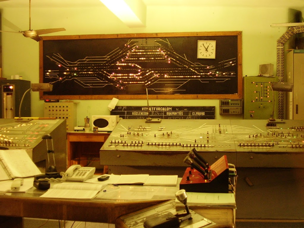 Control Tower of Székesfehérvár Railway Station, Hungary (inside)